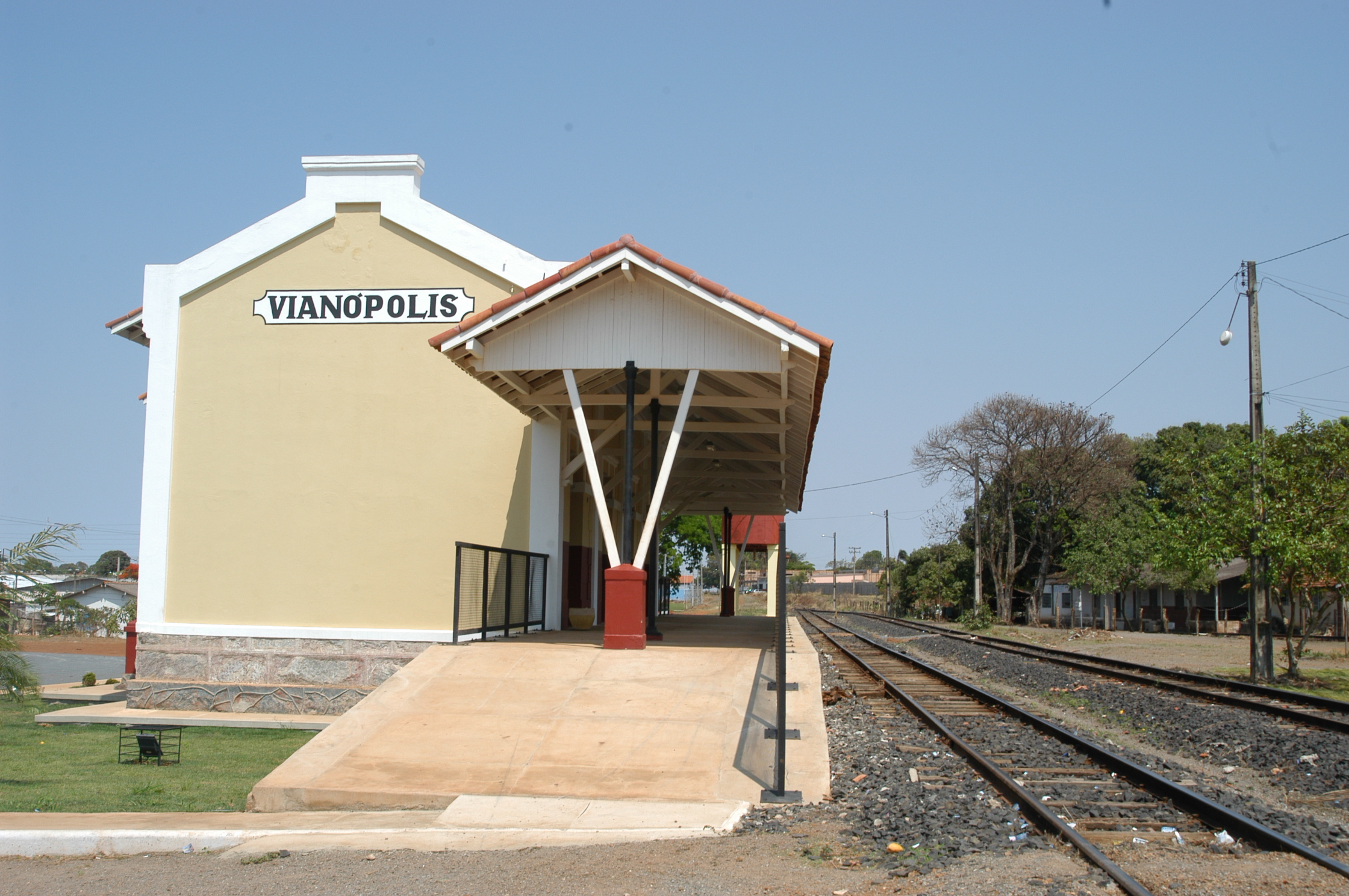 Trains station in Vianópolis, GO, Brazil